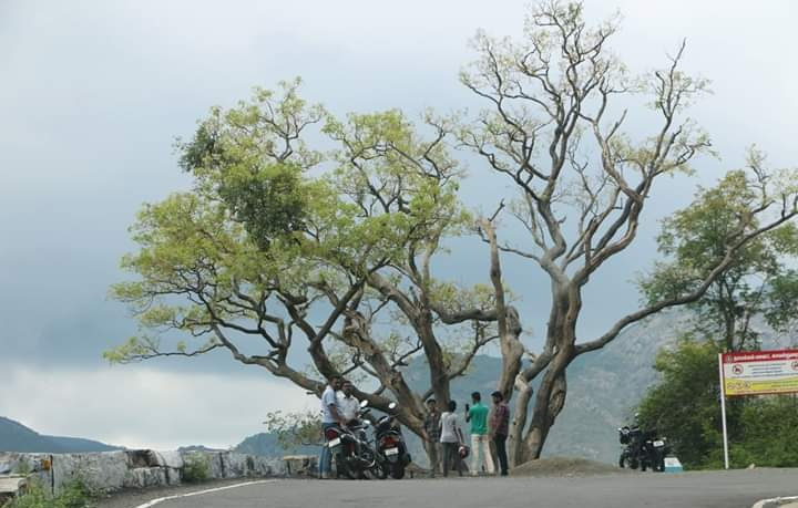 A view point at kolli hills